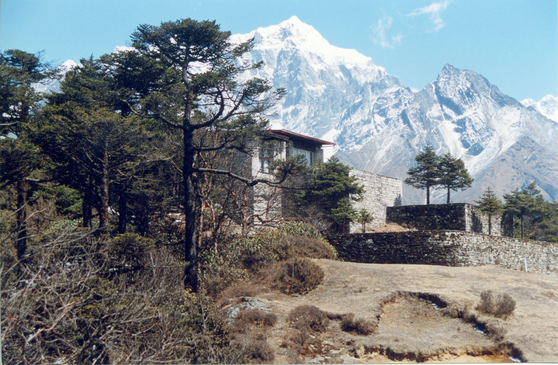 Everest View Hotel near Syangboche, Khumbu region, Nepal. Trees at left are Abies spectabilis.